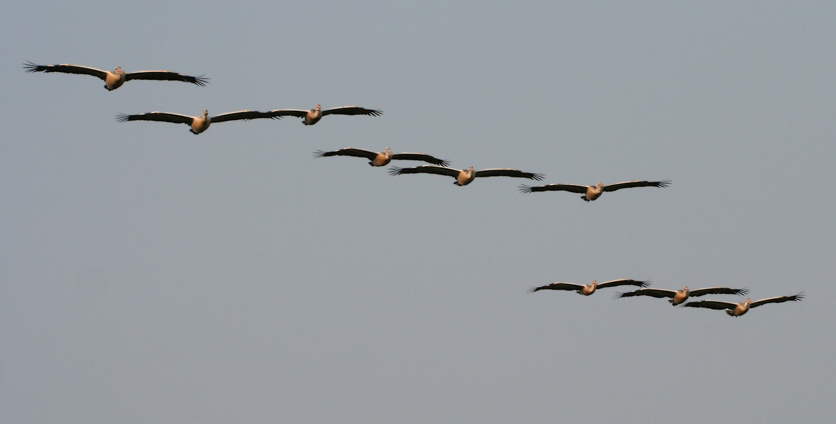 Spot-billed Pelican Pelecanus philippensis at Garapadu, Andhra Pradesh, India.